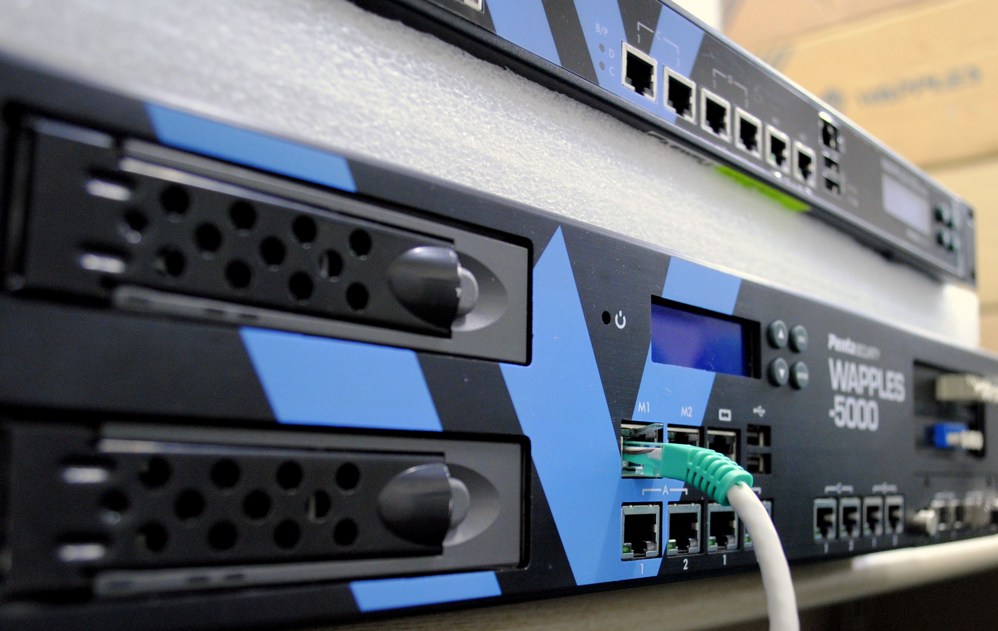 Penta Security Systems, Inc. WAF product called WAPPLES